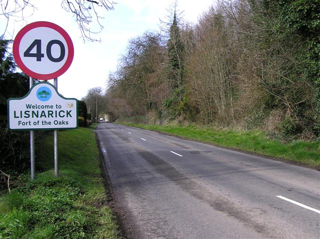 Welcome to Lisnarick A small hamlet in County Fermanagh